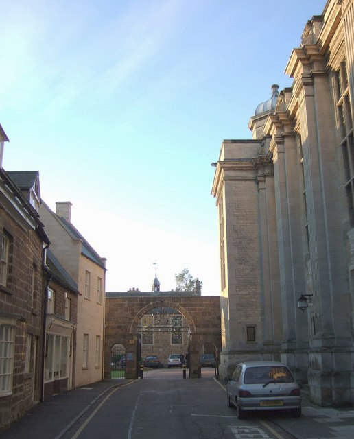 School Lane, Uppingham. The same view as 45219, two years on, with the building work completed. The lane leads into Uppingham School. On the right is the Memorial Hall, built in the 1920s, following the loss of 450 former pupils in the First World War. The old buildings on the left are now part of the school's Music Centre. the building beyond the arch is the Library, originally the hospital.